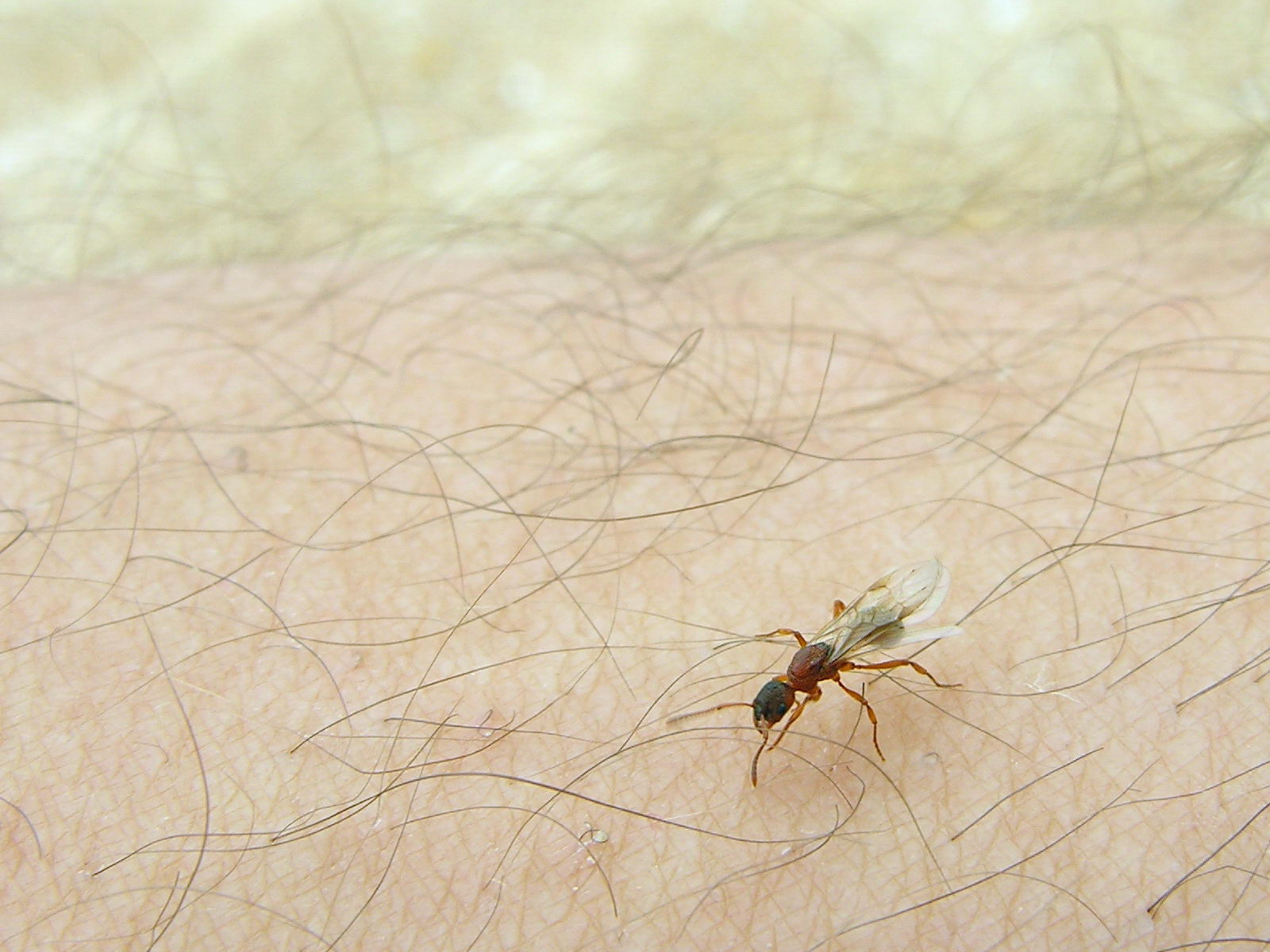 Publish by= Luis Miguel Bugallo Sánchez. Self made